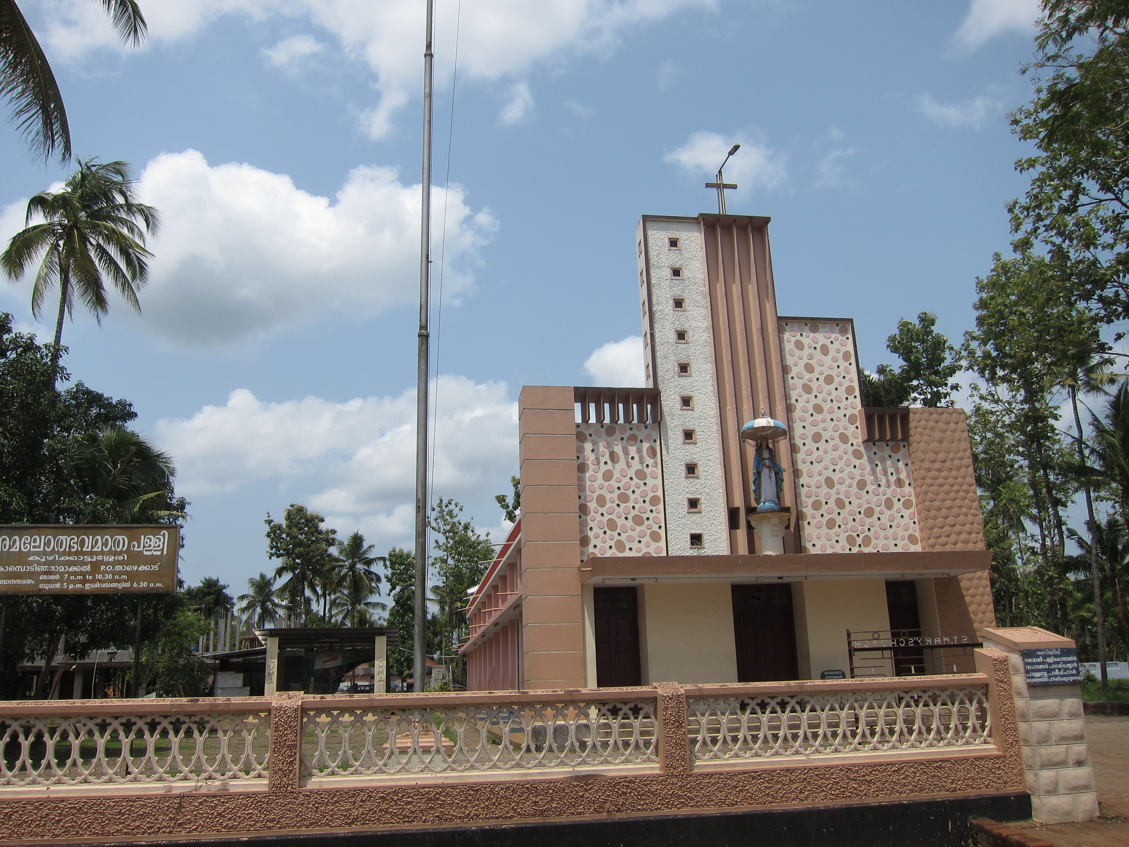 Mary Immaculate Church, Kombidinjamakkal, Kuzhikkattussery, Irinjalakuda Diocese, Thrissur District, അമലോത്ഭവമാത പള്ളി, കൊമ്പൊടിഞ്ഞാമാക്കൽ, കുഴിക്കാട്ടുശ്ശരി, ഇരിങ്ങാലക്കുട രൂപത, ത്രിശൂർ ജില്ല